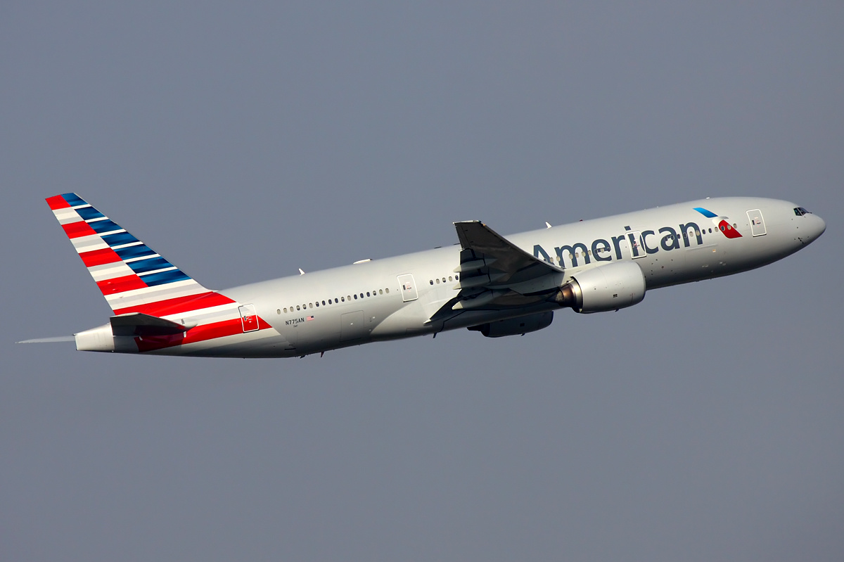 An American Airlines Boeing 777-223/ER just departed from Shanghai Pudong International Airport (PVG / ZSPD)